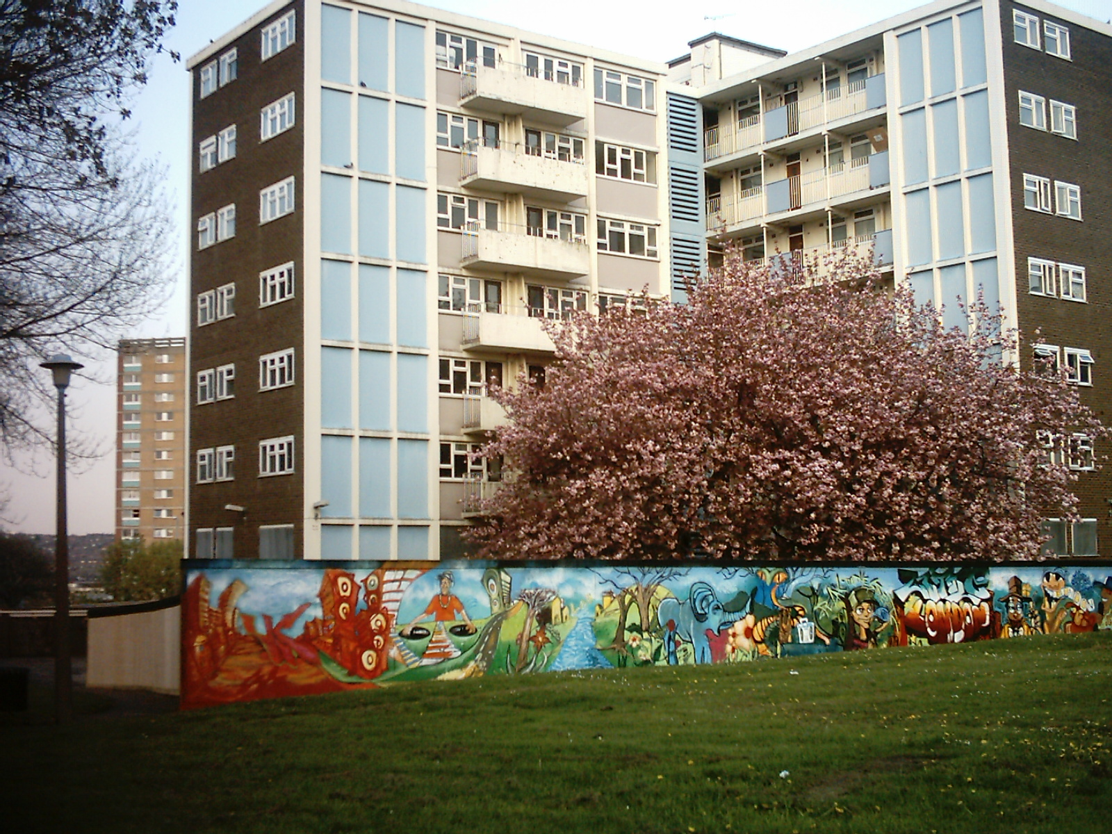 One of the blocks of Carlton Towers in Little London, Leeds, West Yorkshire, UK after having been abandoned by Leeds City Council. Note perhaps one sign of years of lack of investment in the fact the street lighting is still the original that was installed when the flats were built. Taken on the 20th April 2009.